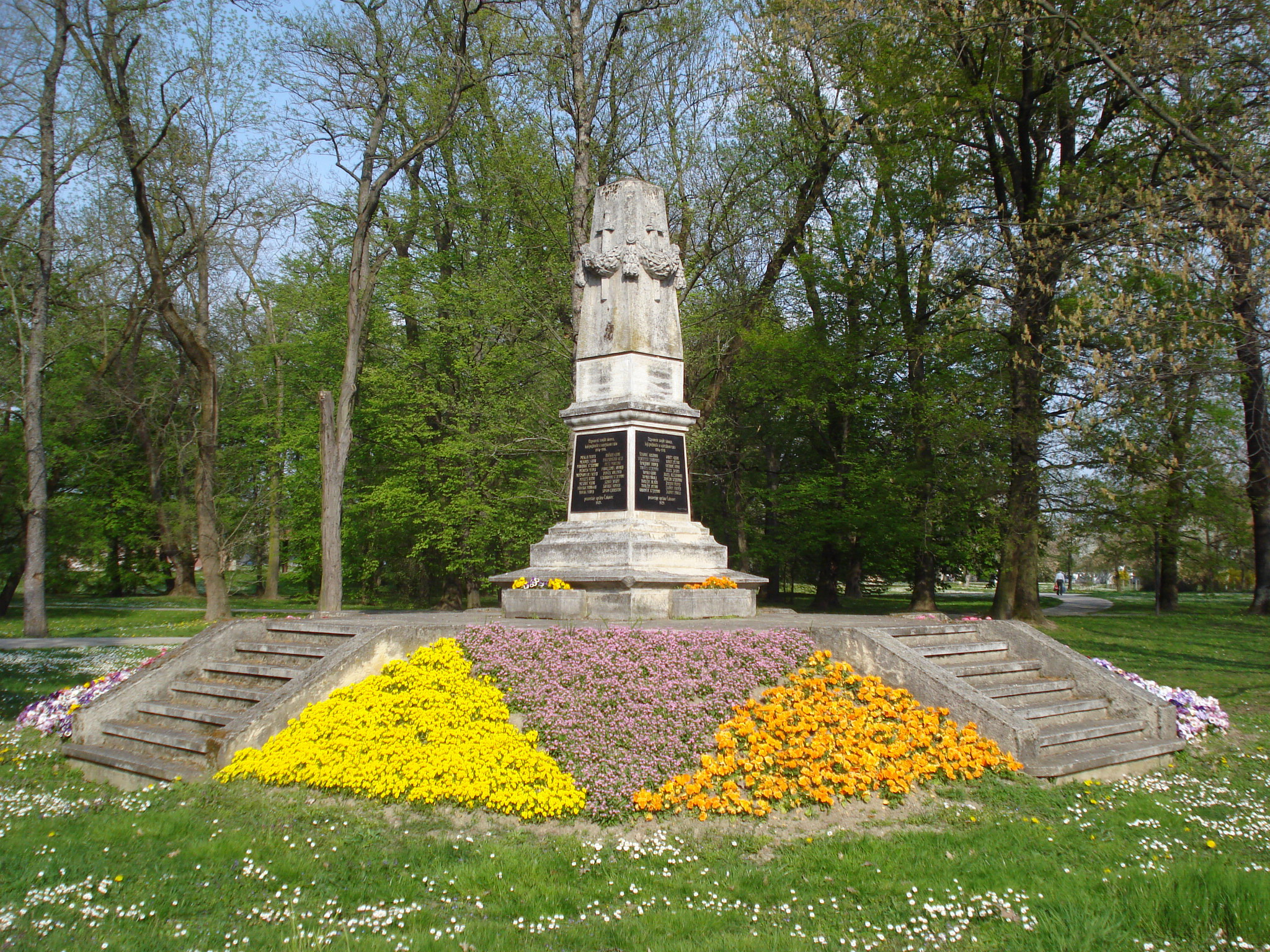 Zrinski park, Čakovec (Croatia) - Memorial to fallen soldiers in World War I in early springtime 2014Hrvatski: Perivoj Zrinskih, Čakovec - Spomenik vojnicima poginulima u 1. svjetskom ratu u rano proljeće 2014.